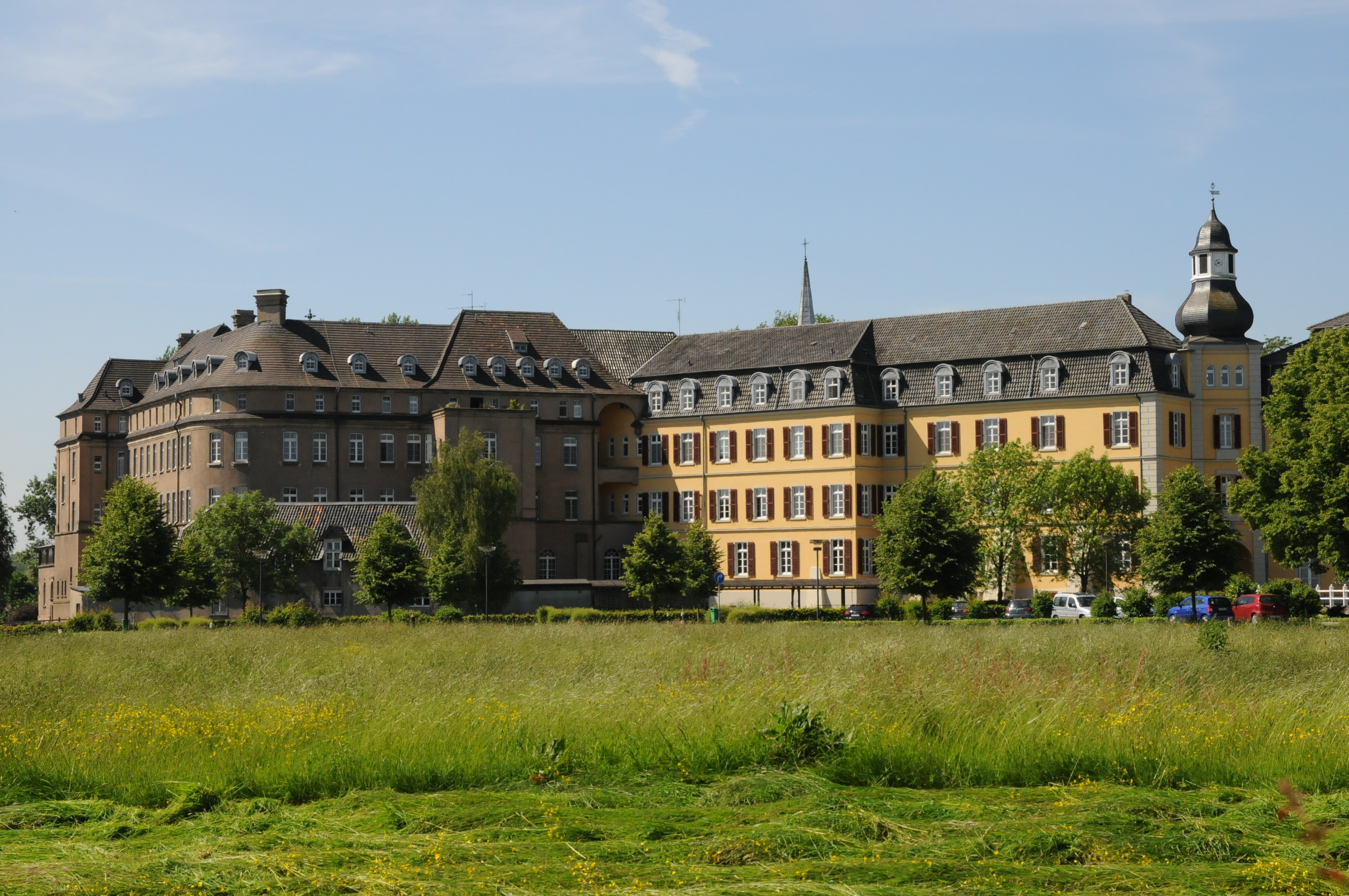 Haus Aspel in Rees, north-eastern aspect